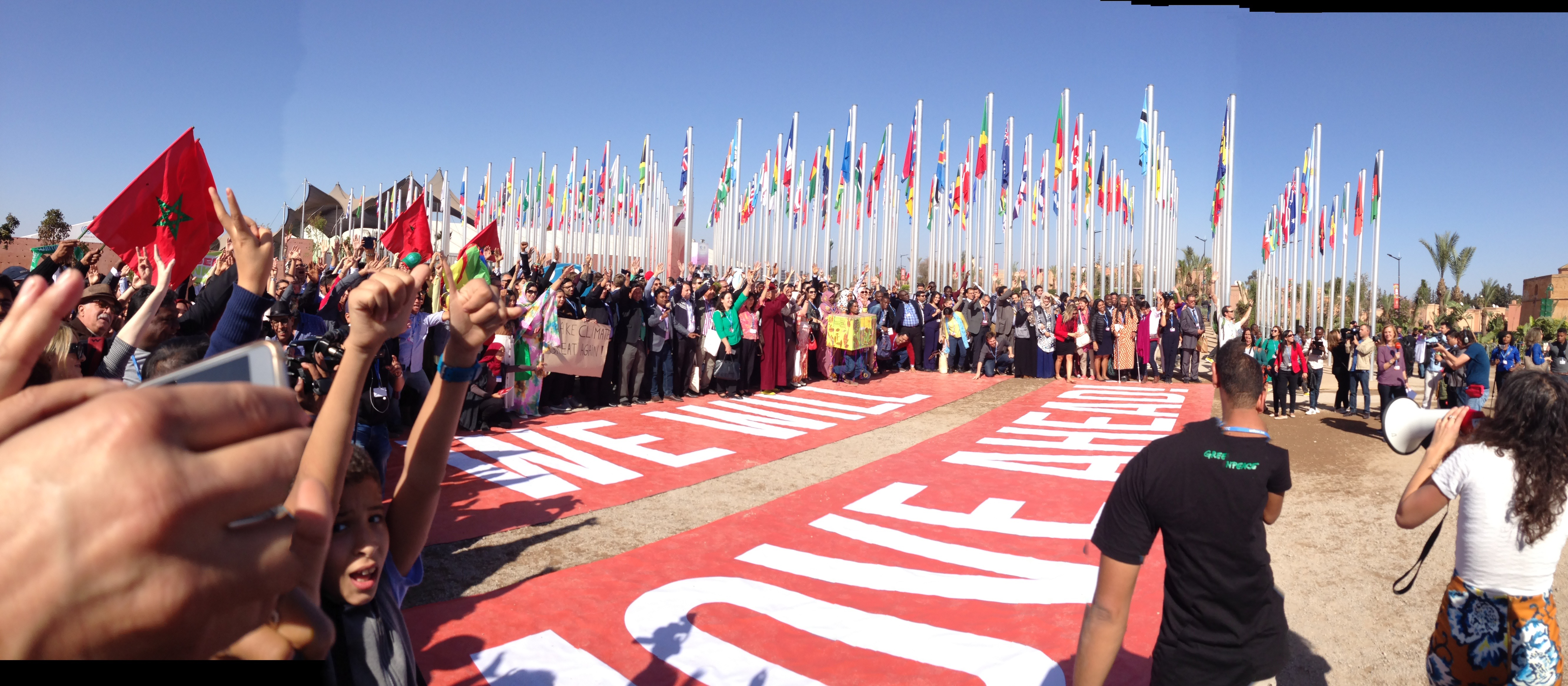 Greenpeace organised a UNFCCC 'family' photoshoot next to the flags at the entrance with a giant banner saying: We Will Move Ahead. It highlighted the resolve, despite all the differences, that we will continue to persue strong climate action, moving towards 100 per cent renewals and aiming for 1.5C target.